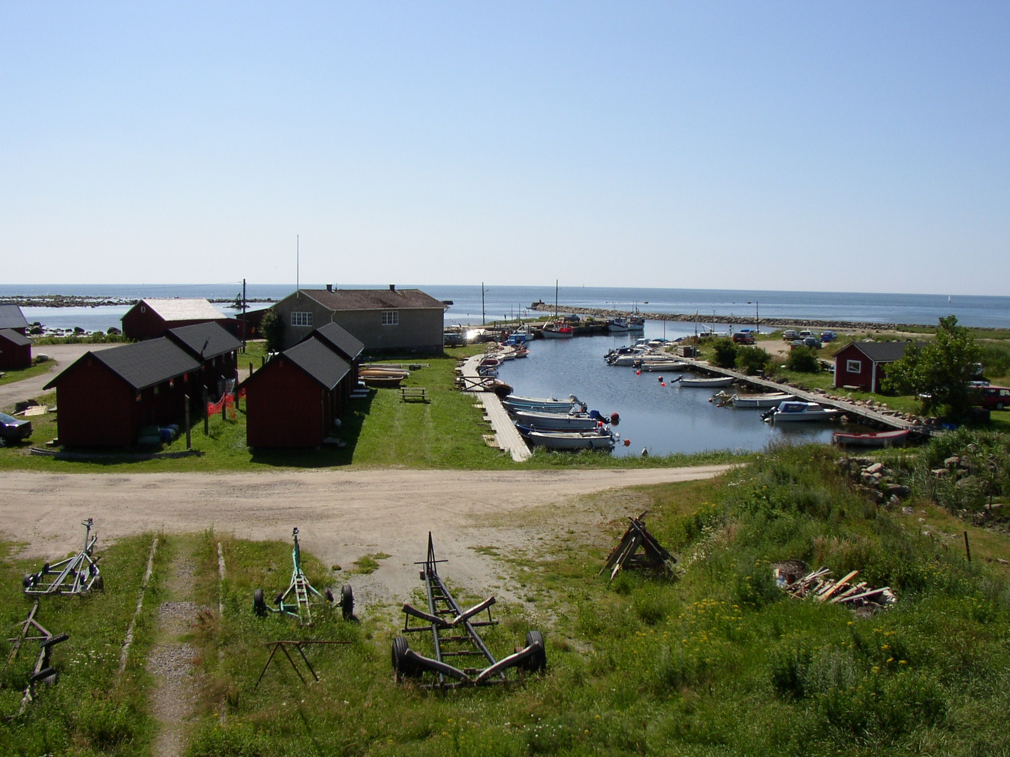 The harbour of Gamla Köpstad, Sweden, close to Varberg at the Kattegat.